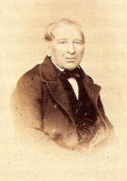 Johann Heinrich Schreiber (1797-1871), member of the diet of Kurhessen